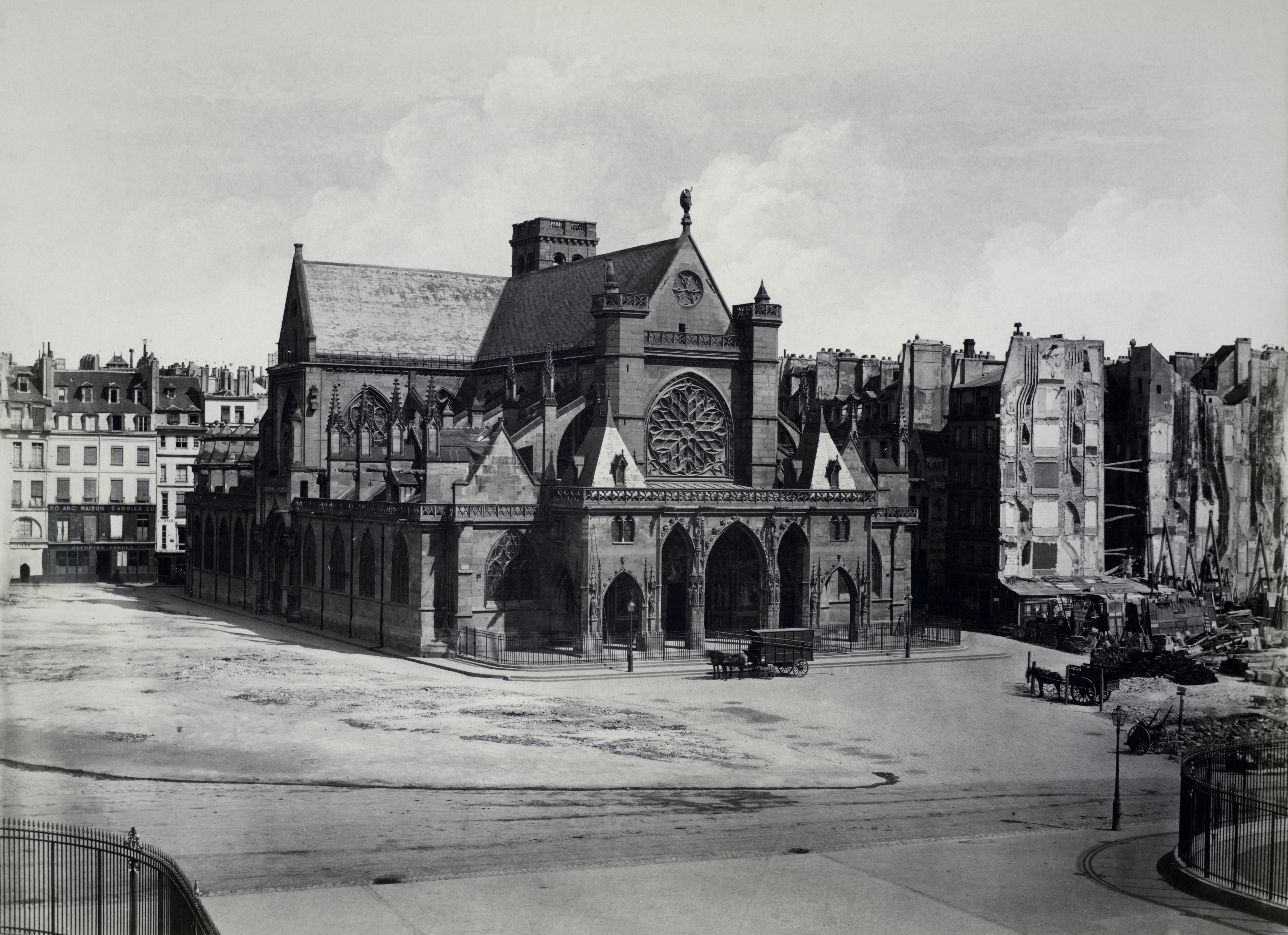 Saint Germain l'Auxerrois, Paris, France.